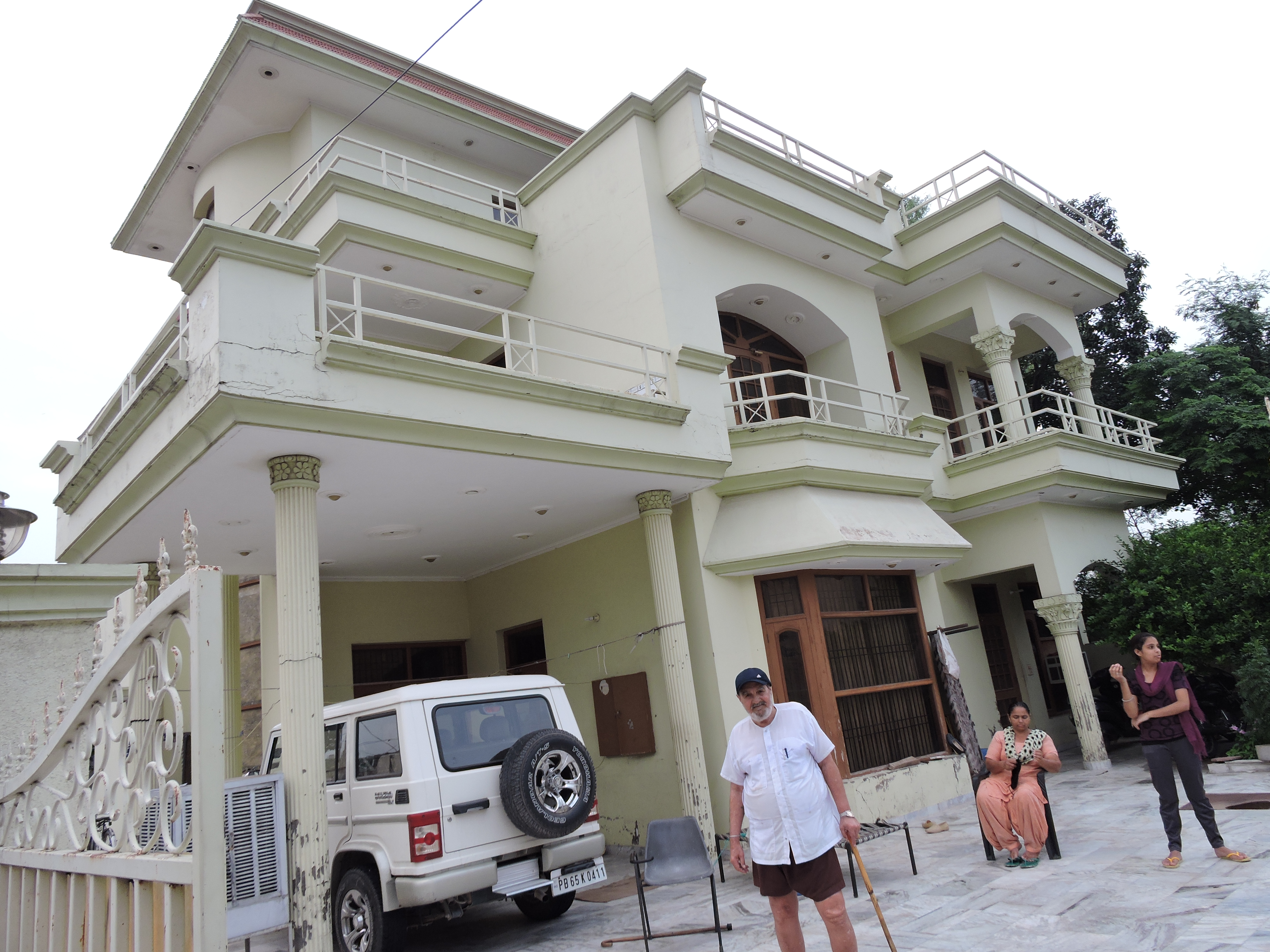 Rabbi Singh Baironpuri Punjabi folk singer ,at his house in Baironpur village ,district SAS Nagar (Mohali),Punjab ,India